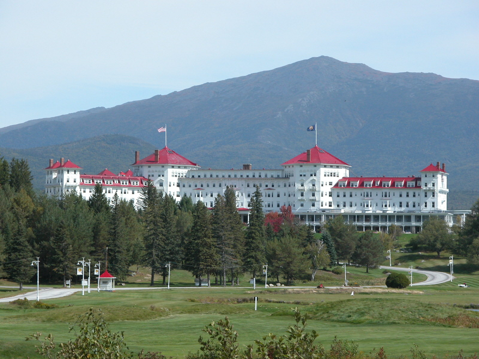 Mount Washington Hotel in New Hampshire/USA in 2003